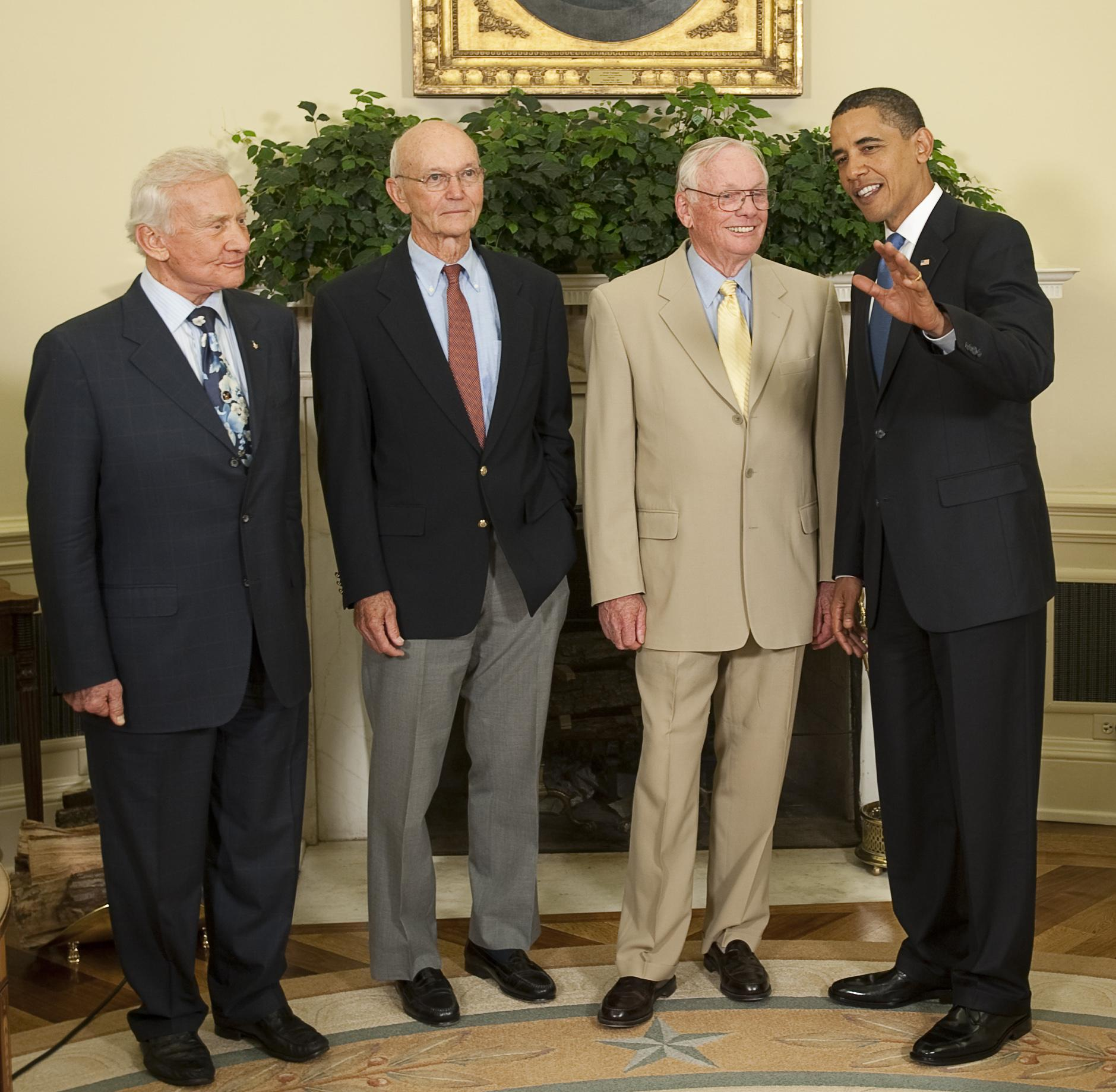 President Barack Obama chats with Apollo 11 astronauts, from left, Buzz Aldrin, Michael Collins and Neil Armstrong, Monday, July 20, 2009, in the Oval Office of the White House in Washington, on the 40th anniversary of the Apollo 11 lunar landing.